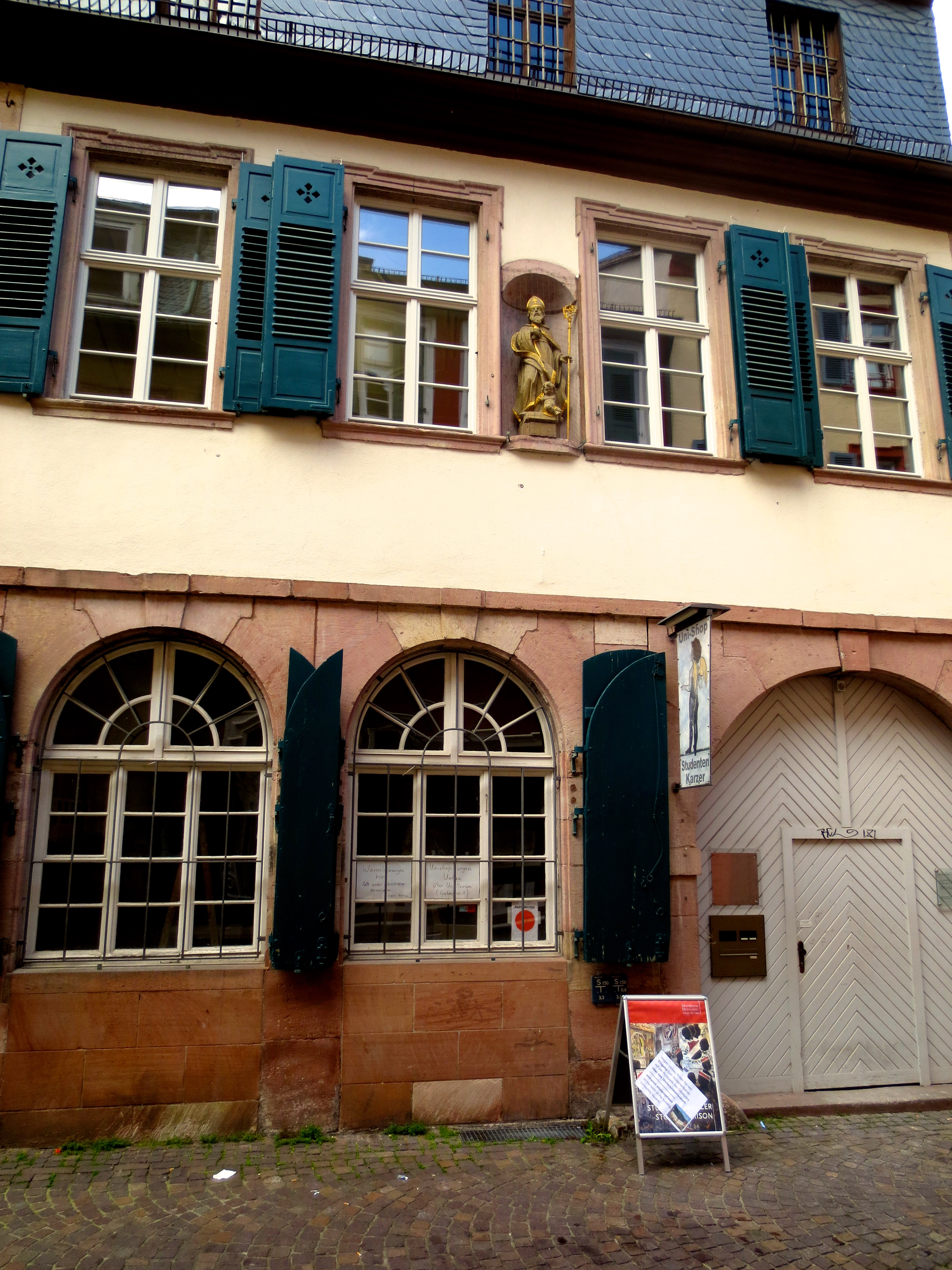 Students Museum with old Students Prison in the little Baroque Building Augustinergasse behind the Old University